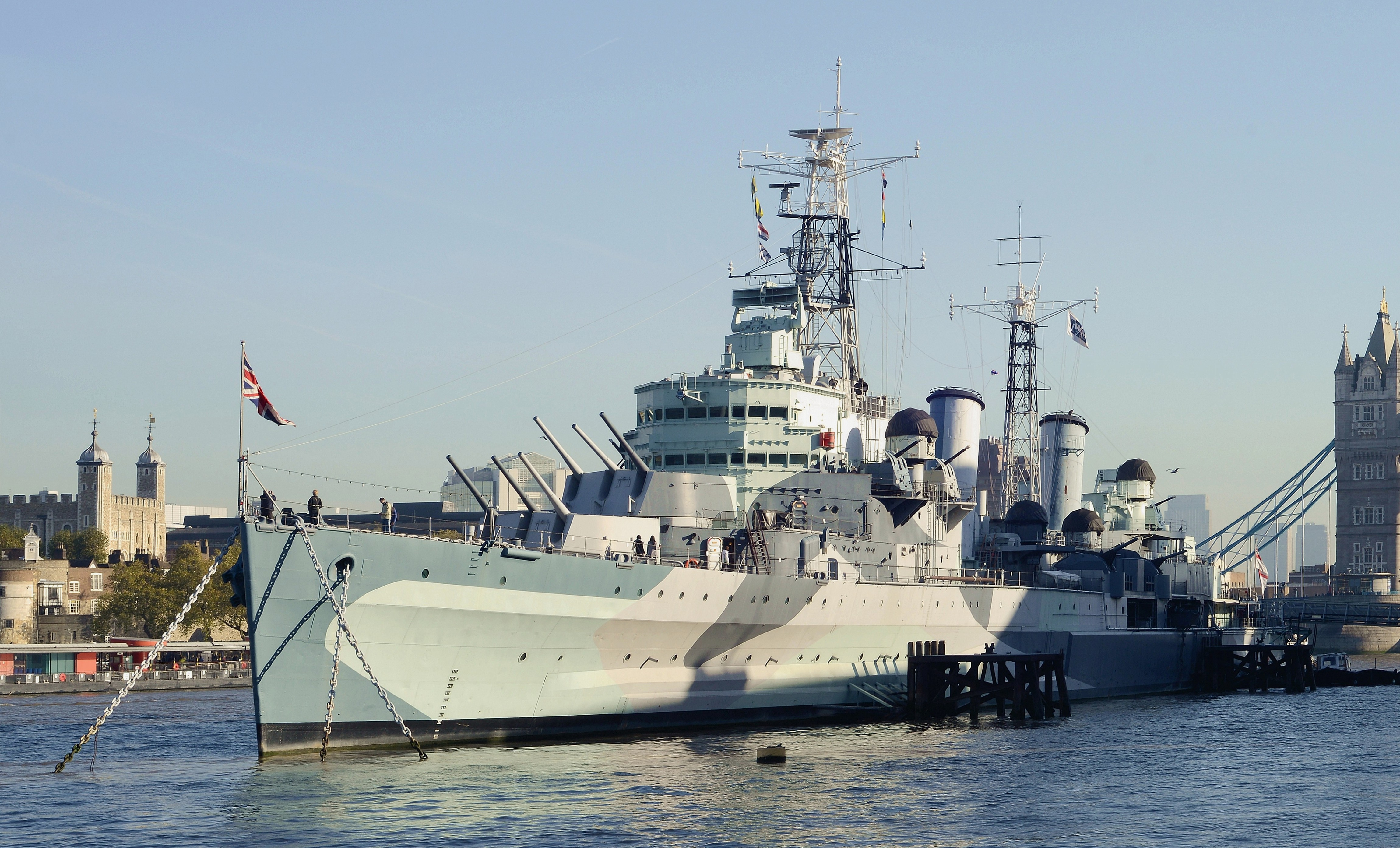 HMS Belfast (C35), London